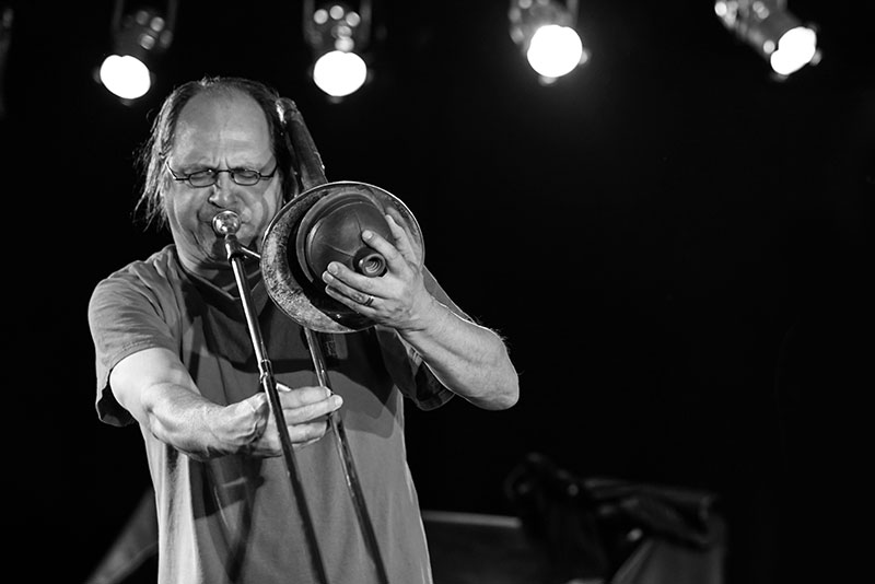 Christof Thewes at Jazzkeller 69 Aufsturtz in Berlin 2018